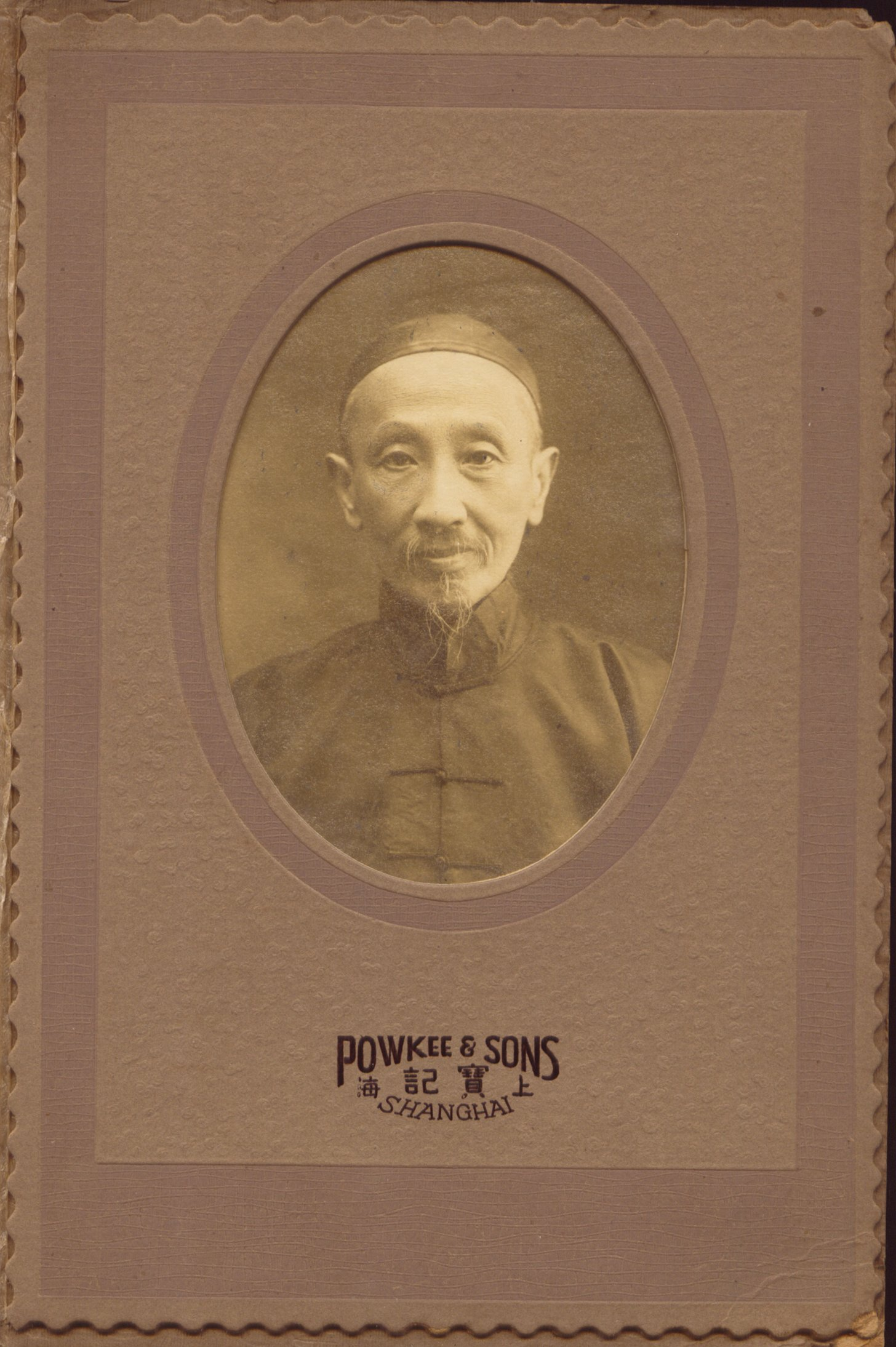 Ye Erkai, late Qing literati